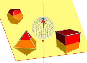 Illustration of the Ham sandwich theorem